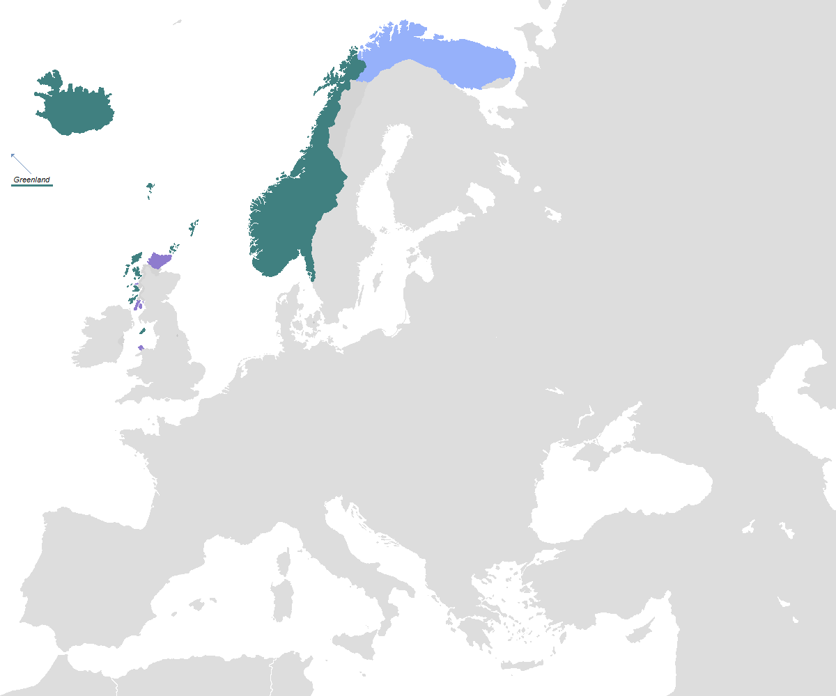 Map of the Norwegian Empire at its greatest extent during the period between the 1200s and 1814. Areas under the Crown of Norway. Areas function as Vassals of Norway. Joint tax territory of Norway, Russia and Sweden. Short-ruled areas (uncertain borders) of Norway. Self-made from File:Blank map europe.png, based on File:Norway1265.png and File:Sweden 1250 cropped.png.